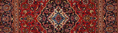 Image of a Persian rug. Used for background in a template. The image is real. But I, Zereshk, created it with photoshop (fading, and everything else)